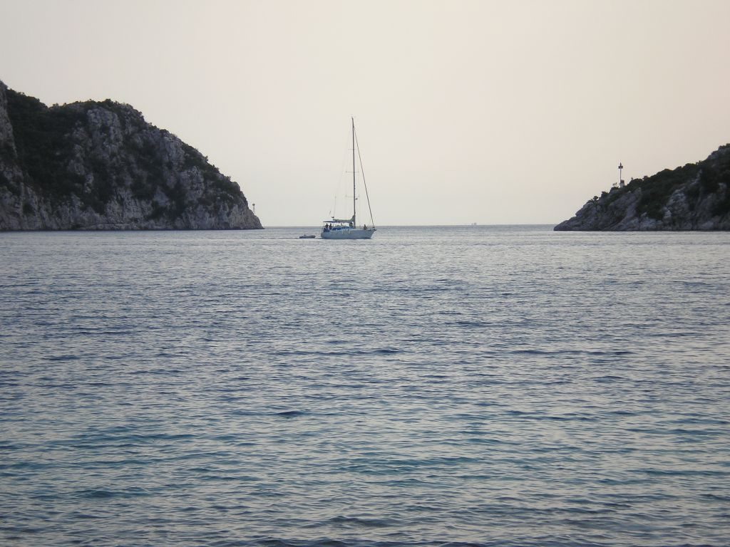 Entrance of Porto Koufo Bay, Sithonia, Chalcidice, Greece.